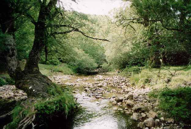 National Park of Abruzzo, Lazio and Molise, often cited under its previous name, Abruzzo National Park